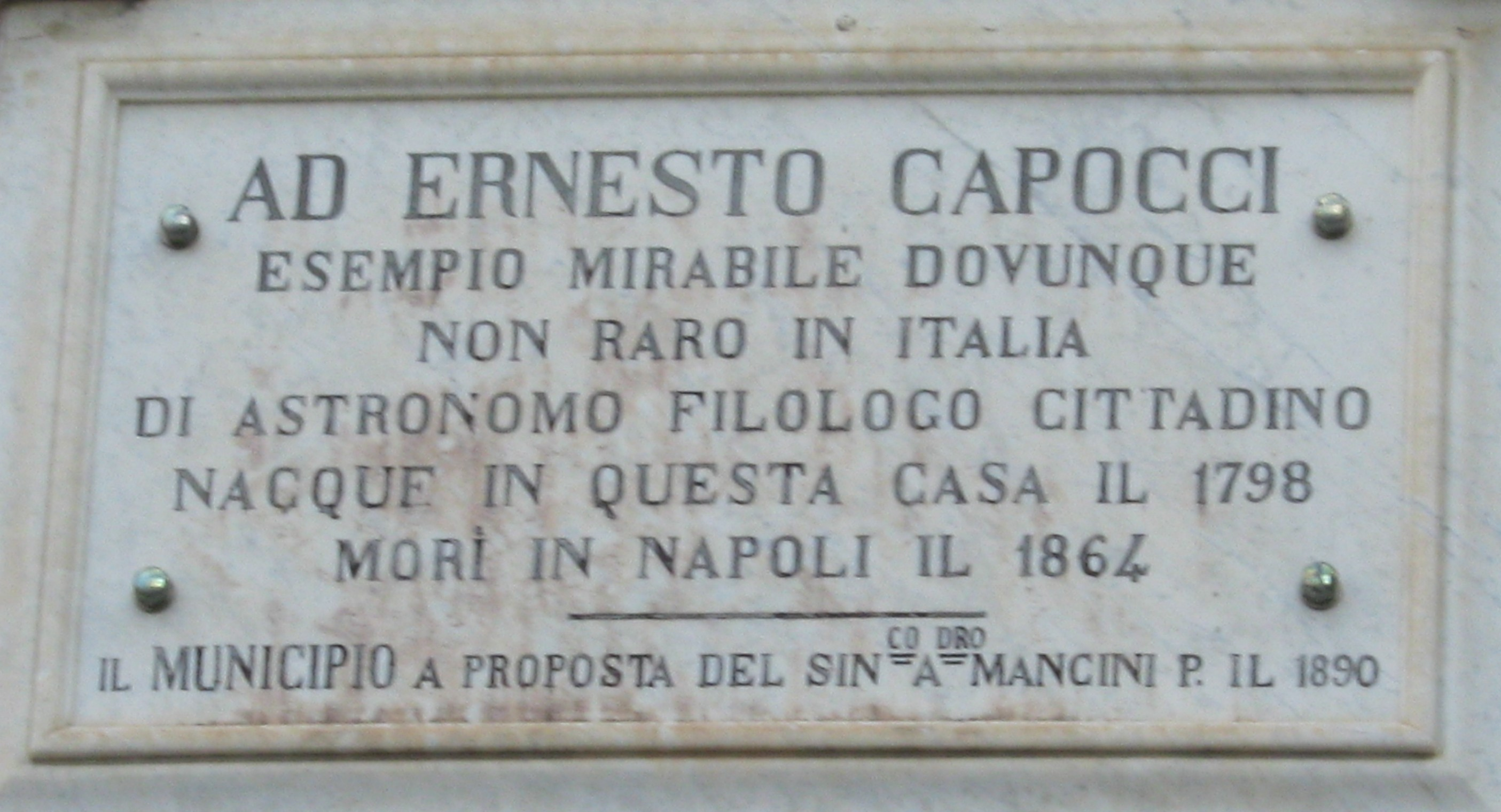 Epigraph of Ernesto Capocci (1798-1864), Italian astronomer, located on the town hall of Picinisco, Italy.